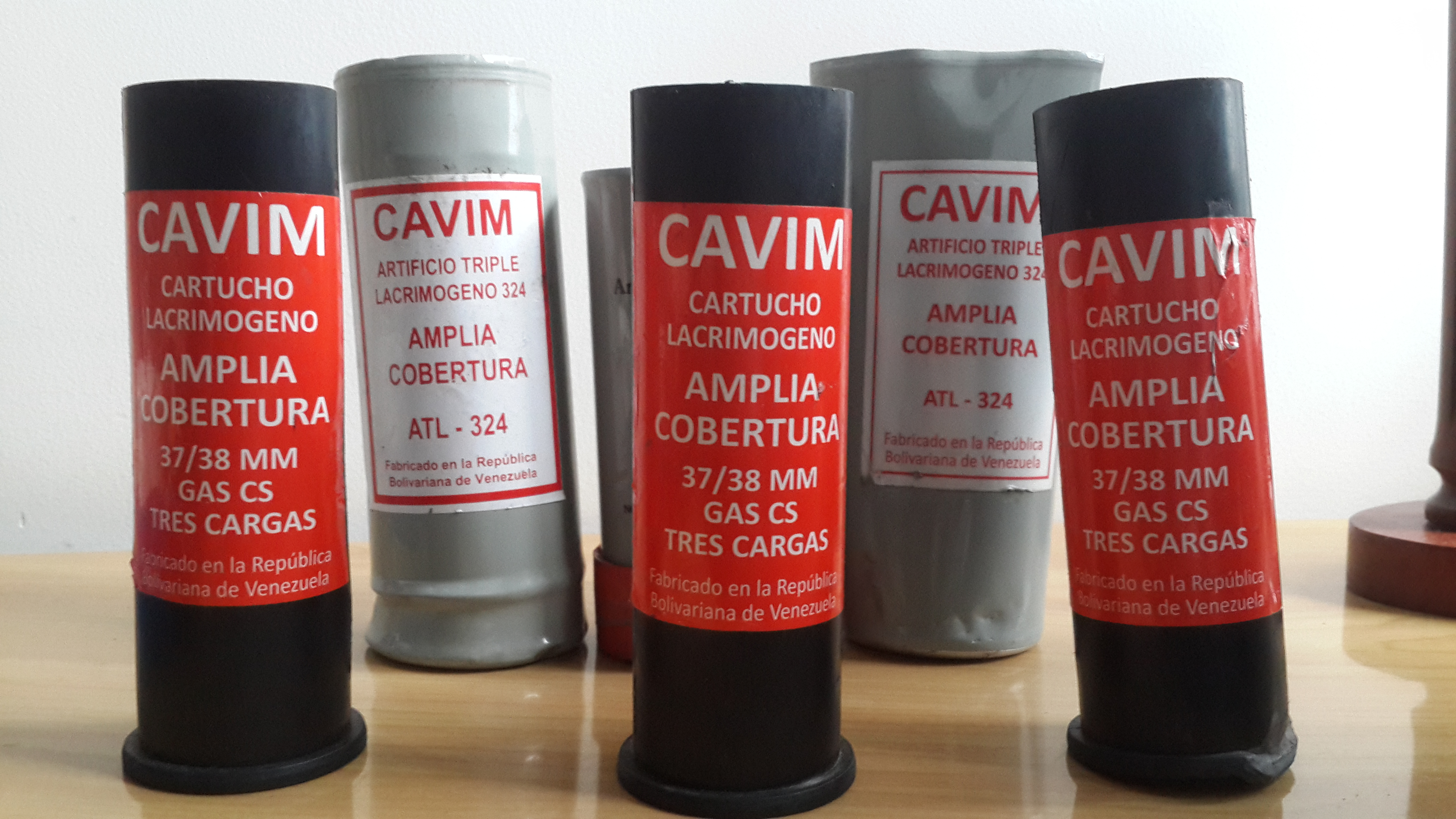 Venezuelan tear gas cannisters produced by CAVIM in Venezuela. Notice how the fabrication and expiration dates aren't shown.